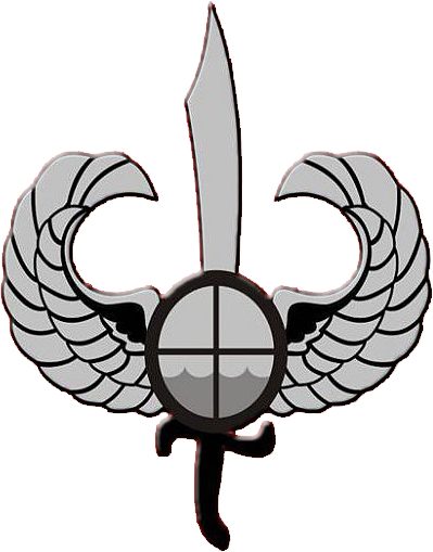 SAF Badge awarded to PNP Personnel who graduate from the PNP SAF Course.